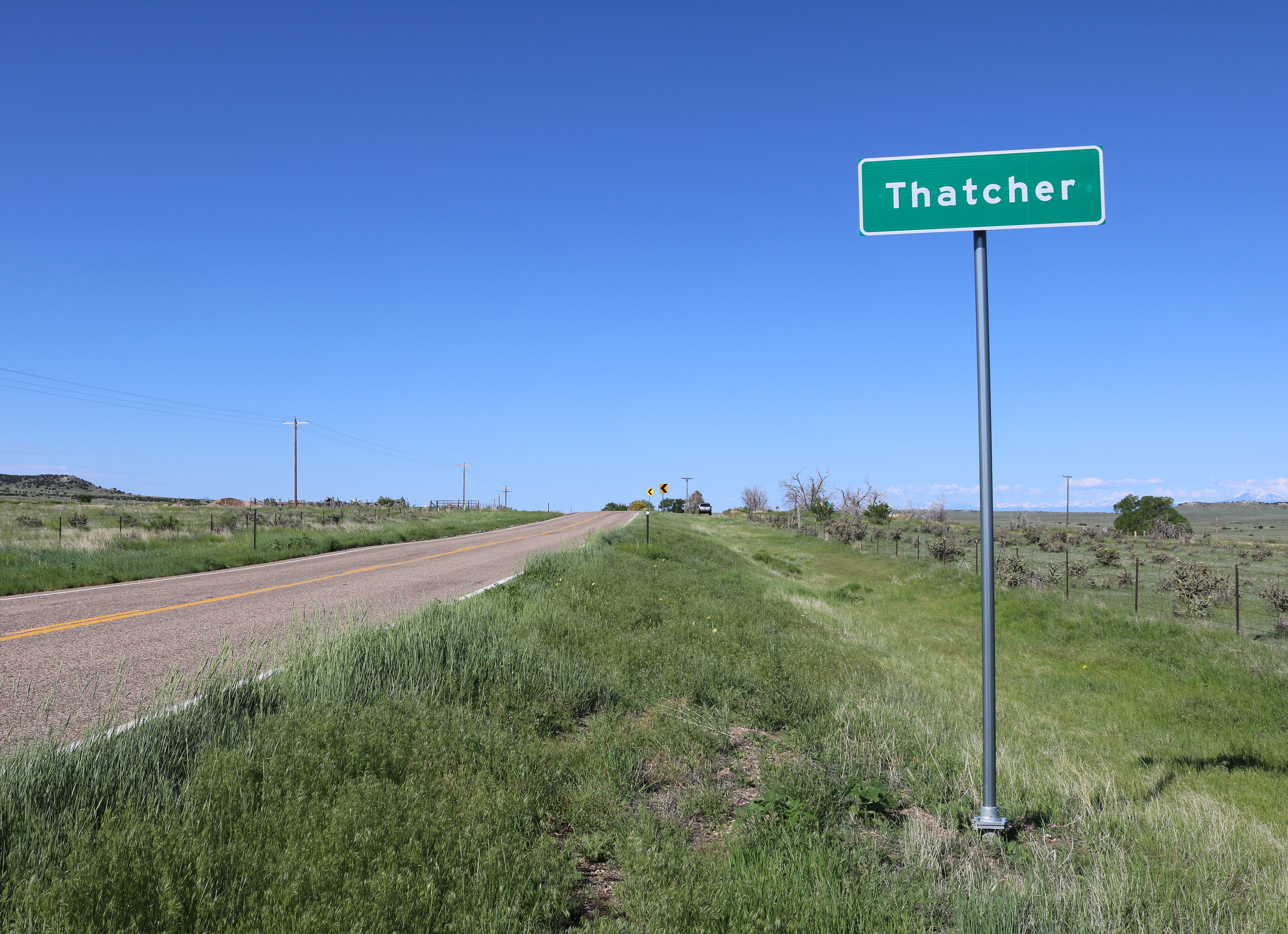 Thatcher, Colorado. The highway in the picture is U.S. Route 350.